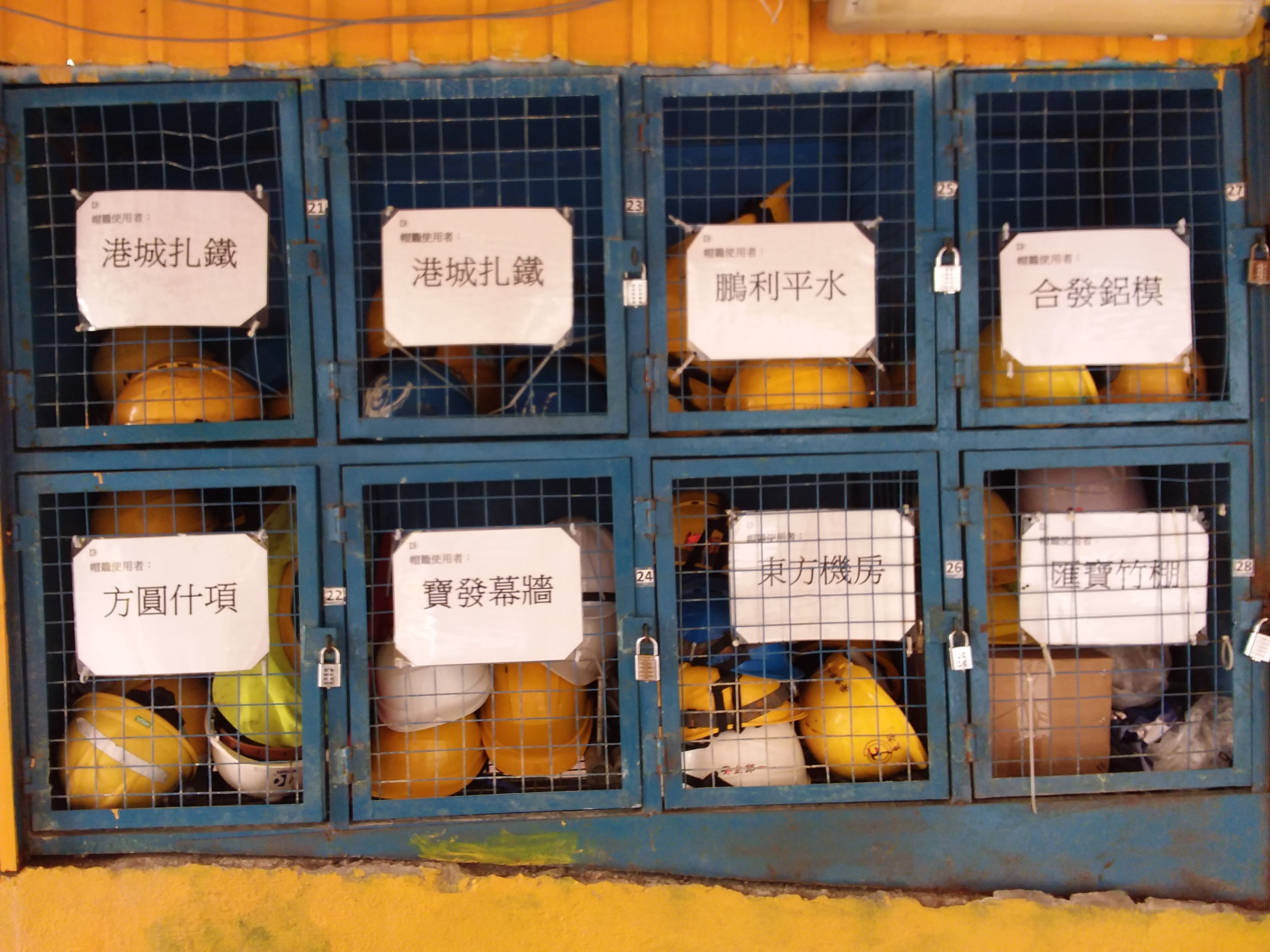 HK Mid-levels 薄扶林道 63 PokFuLam Road residential building 發展建築項目 contruction site 承包商 subcontructors in September 2018